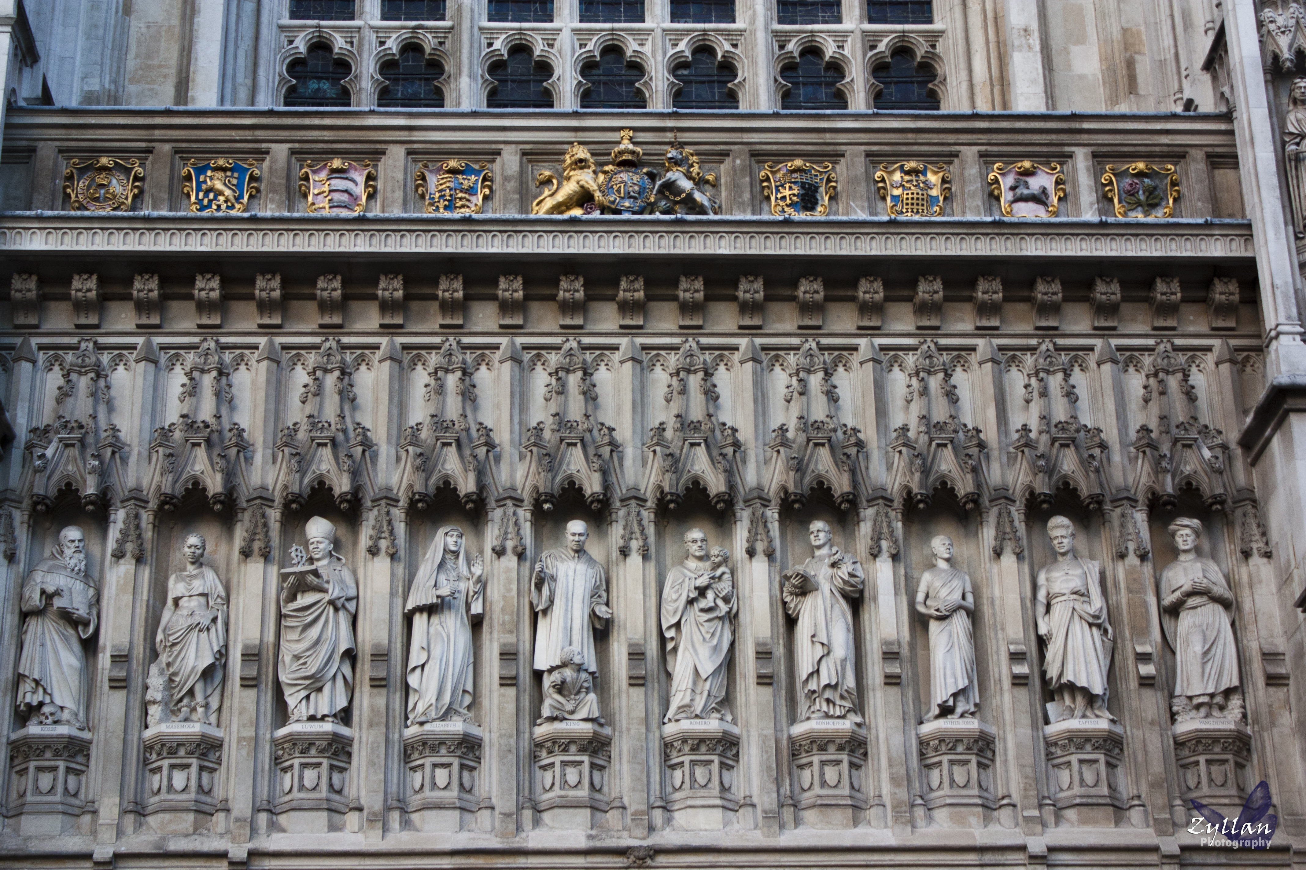 20th century martyrs In 1918, the Grand Duchess Elizabeth Feodorovna of Russia was killed by the Bolsheviks. Manche Masemola was a Anglican catechumen from South Africa who was killed in 1928 by her parents at the age of 16. Maximilian Kolbe was canonised by the Roman Catholic Church after being killed by the Nazis in 1941. In 1941, Lucian Tapiede, an Anglican from Papua New Guinea, was killed during the Japanese invasion. Dietrich Bonhoeffer was a Lutheran pastor and theologian. killed by the Nazis in 1945. Esther John, a Presbyterian evangelist from Pakistan, was allegedly killed by a Muslim fanatic in 1960. One of the world's most famous civil rights activists, Martin Luther King, a baptist, was assassinated in 1969. In 1972, Wang Zhiming (Christian) was killed during the Chinese cultural revolution. He was a pastor and evangelist. In 1977, Janani Luwum was assassinated during the rule of Idi Amin, in Uganda, for being an Anglican Archbishop. Oscar Romero was a Roman Catholic Archbishop in El Salvado, assassinated in 1980. Source: Blog//Twitter//Spotify